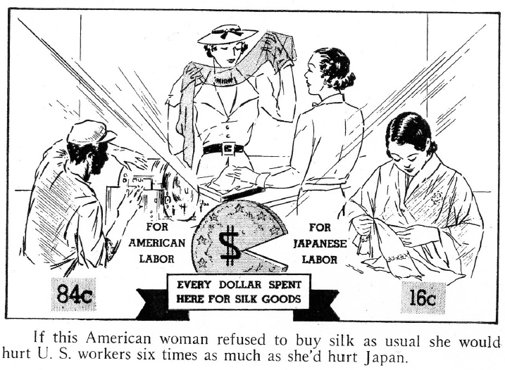 This is a cartoon from the Ralph Townsend's pamphlet There Is No Halfway Neutrality. Here Townsend opposes the boycott of raw silk from Japan on the basis that most of the money that a typical American consumer will spend on silk clothing actually pays the wages of US silk manufacturers and not the Japanese who collect and export the raw silk.